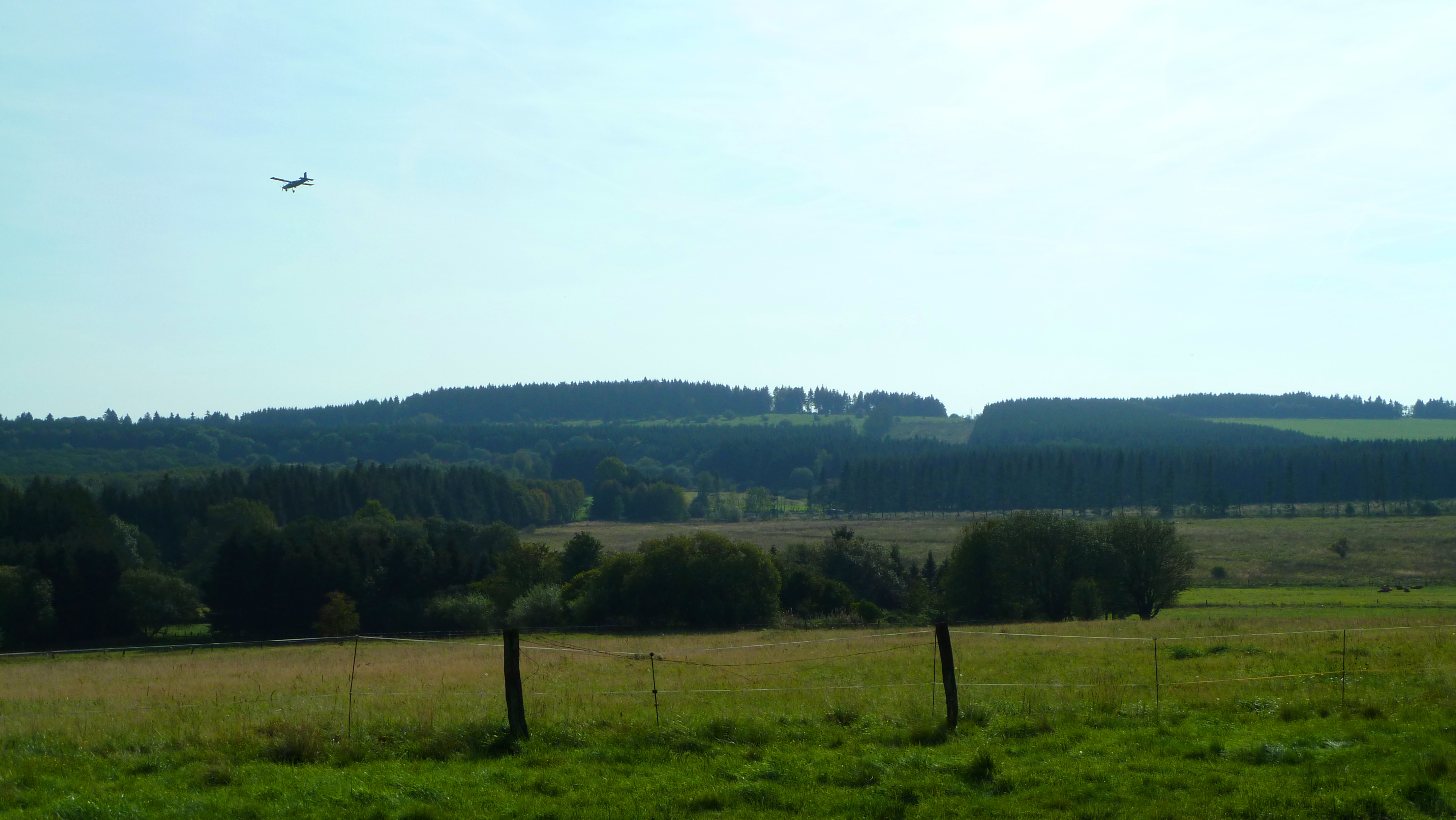 Bartenstein (montain) in Germany